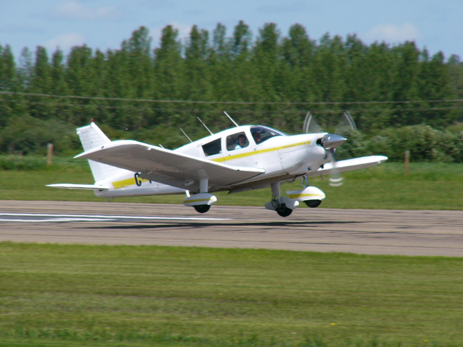 A Piper PA-28 Cherokee landing at the COPA Convention at Wetaskiwin, Alberta, Canada